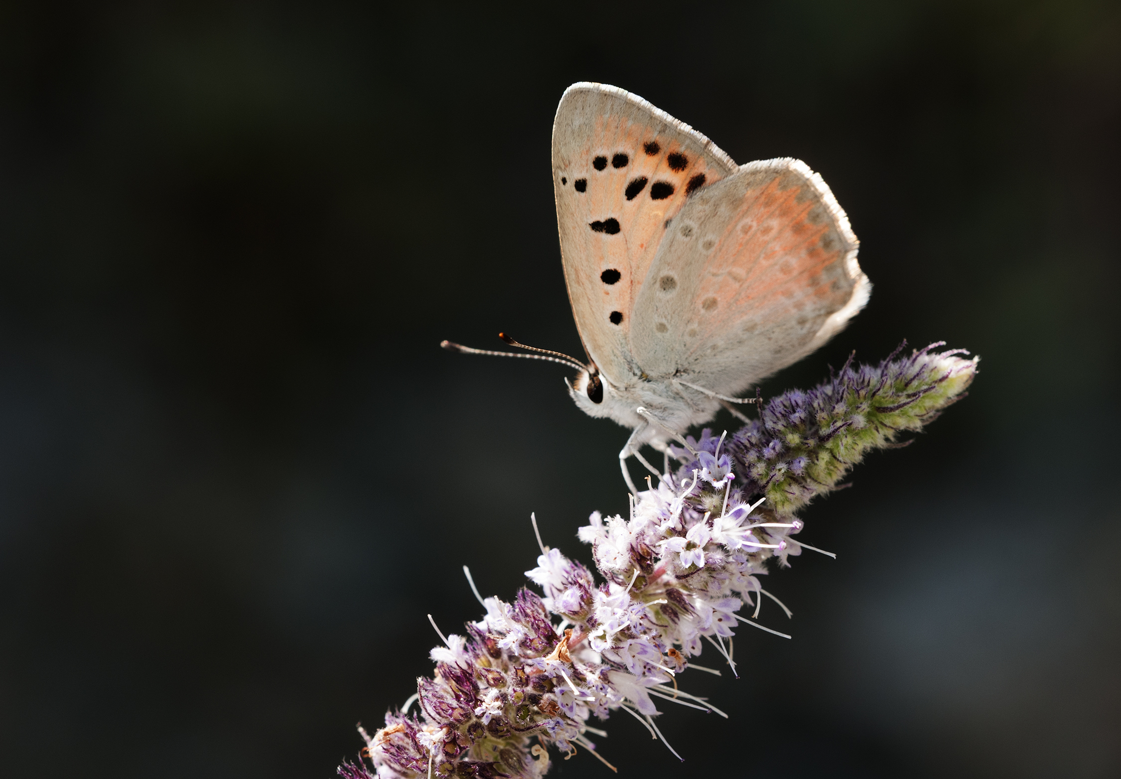 A male specimen of Fiery Copper (Lycaena thetis). Bolkar Mts., Ulukışla, Niğde - Turkey.